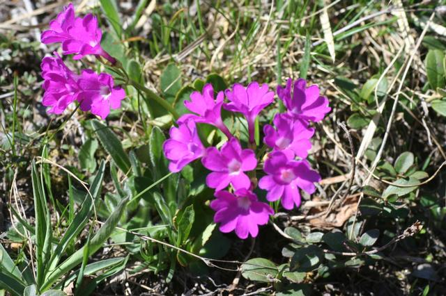 Primula pedemontana